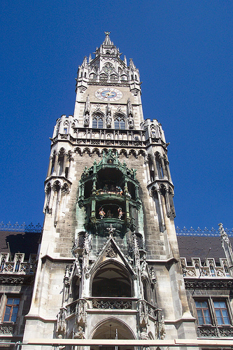 Clock Tower in Munich